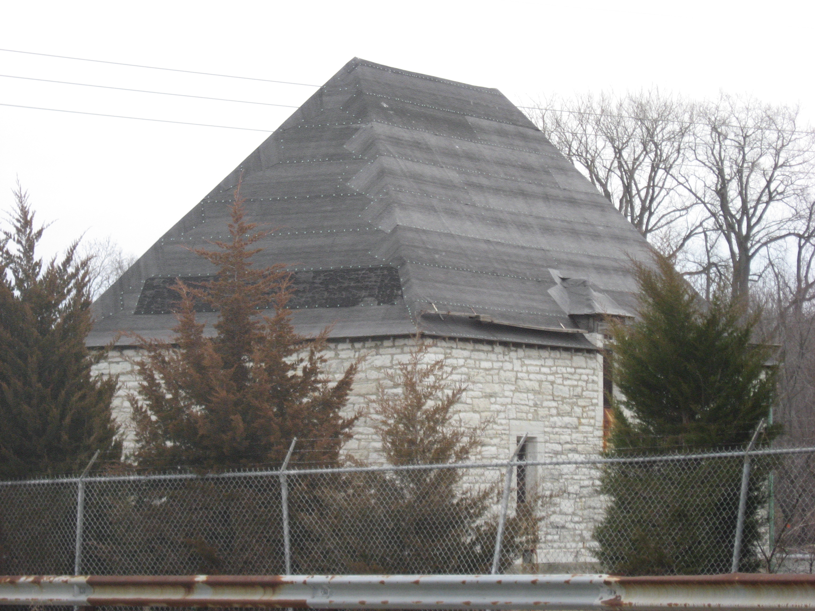 Western side of the Holliday Hydroelectric Dam Powerhouse, located along the White River and Riverwood Avenue at the 211th Street junction north of Noblesville in Noblesville Township, Hamilton County, Indiana, United States. Along with the dam itself, the powerhouse (built in 1922) is listed on the National Register of Historic Places.